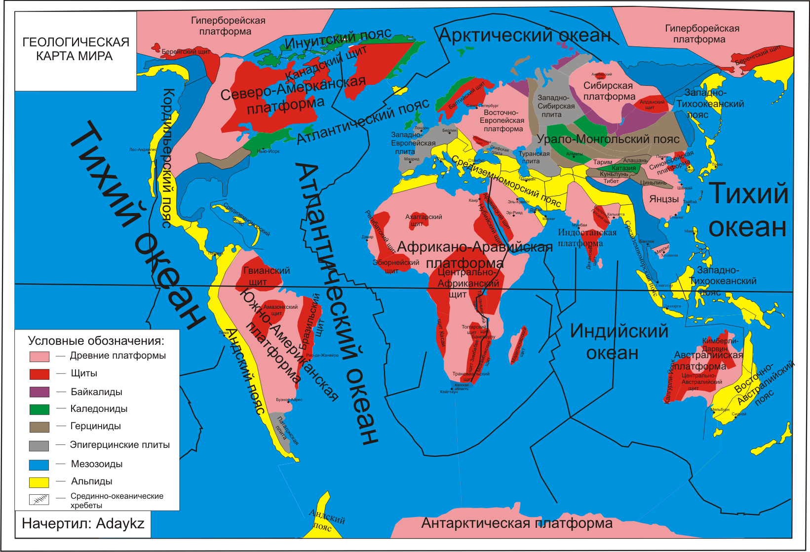 South China craton (in Russian) (Янцзы)